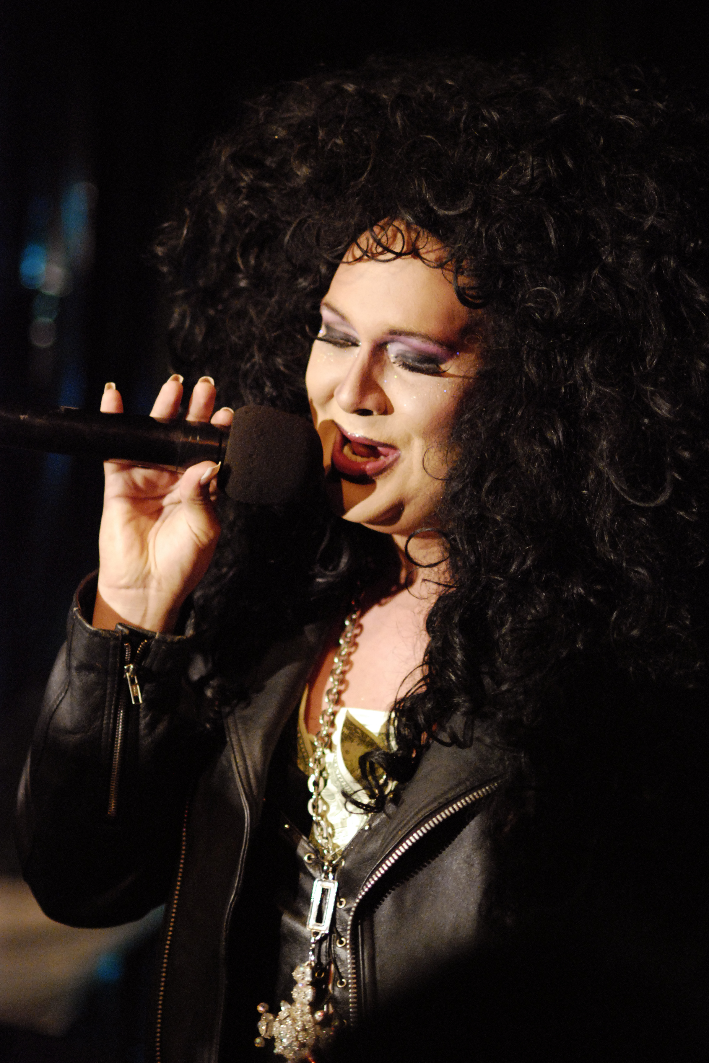 A drag queen impersonating Cher for a performance at a night club.